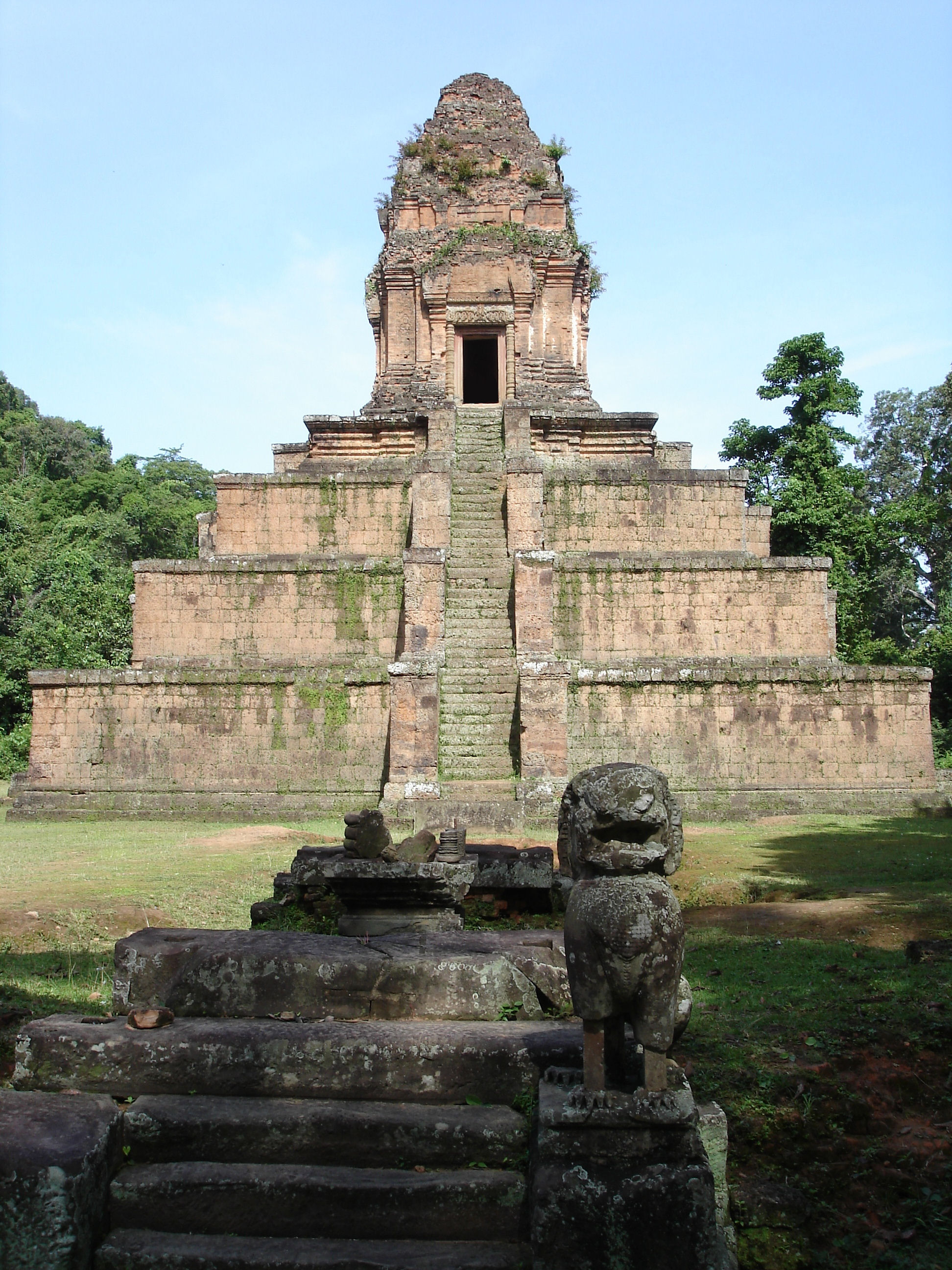 East face of Baksei Chamkrong, a 10th century Angkorian temple, Cambodia